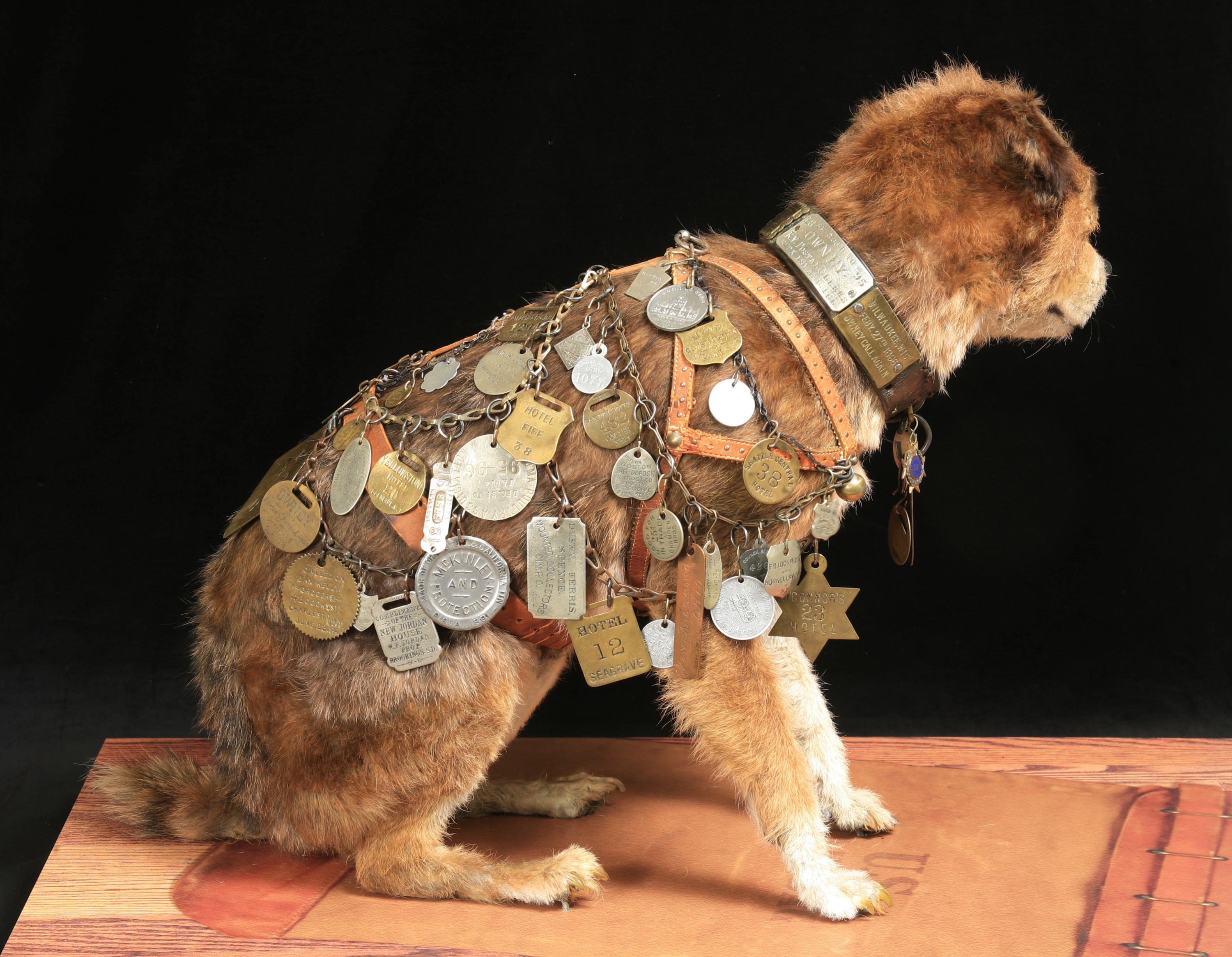 Smithsonian Institute record npm_0.052985.274.1